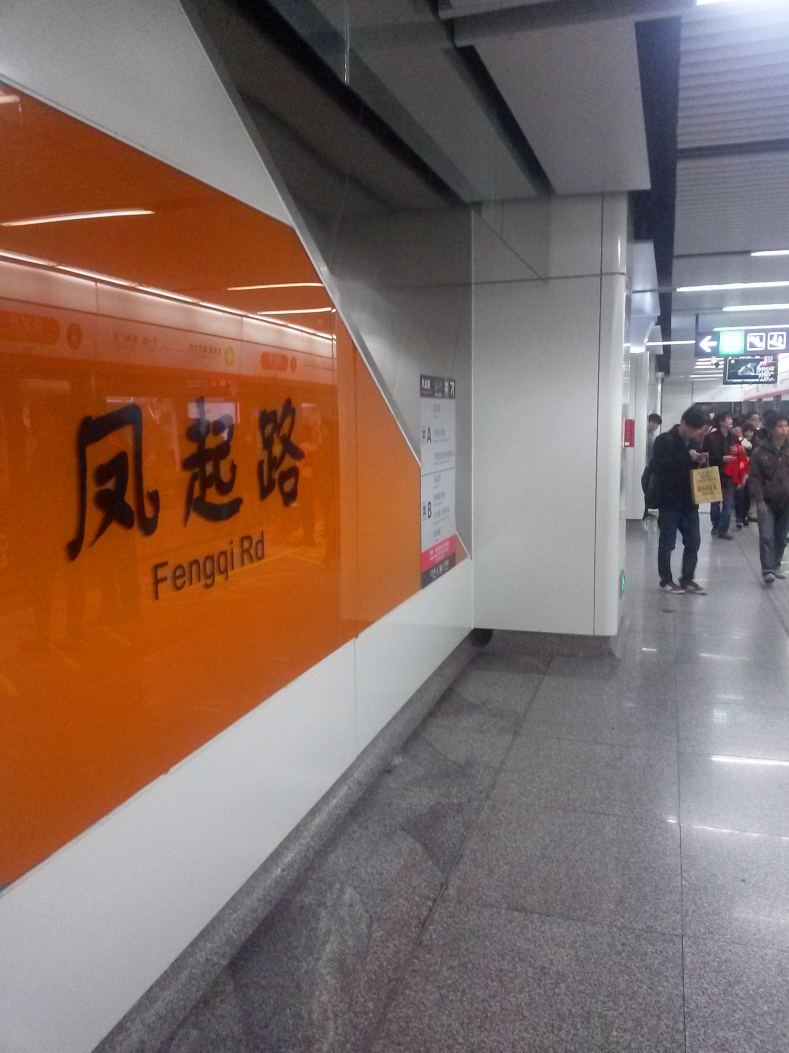 Fengqi Road Station